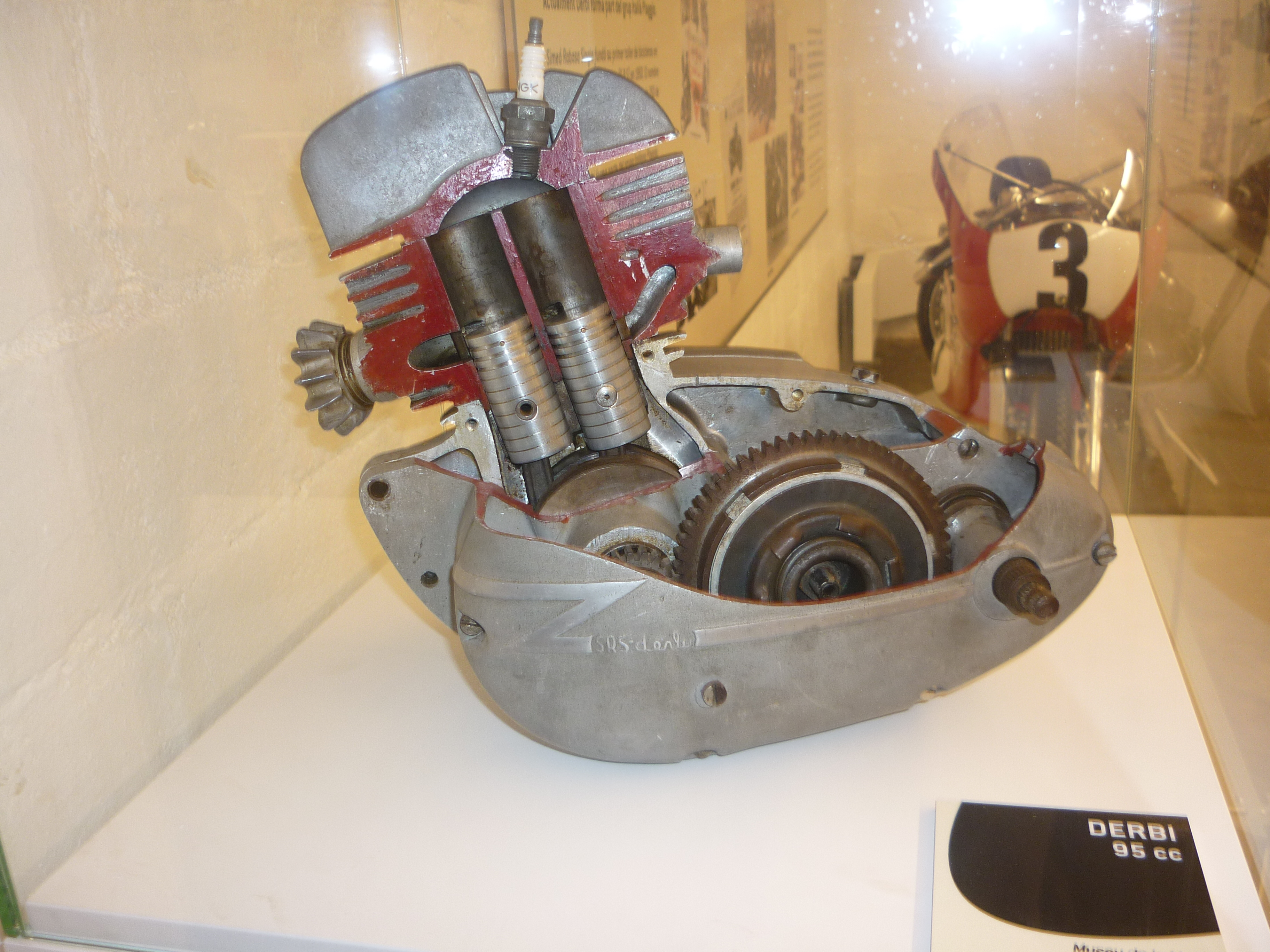 The engine of a Derbi 95, 95cc (near 1954). Museu de la Moto de Barcelona (Catalonia).